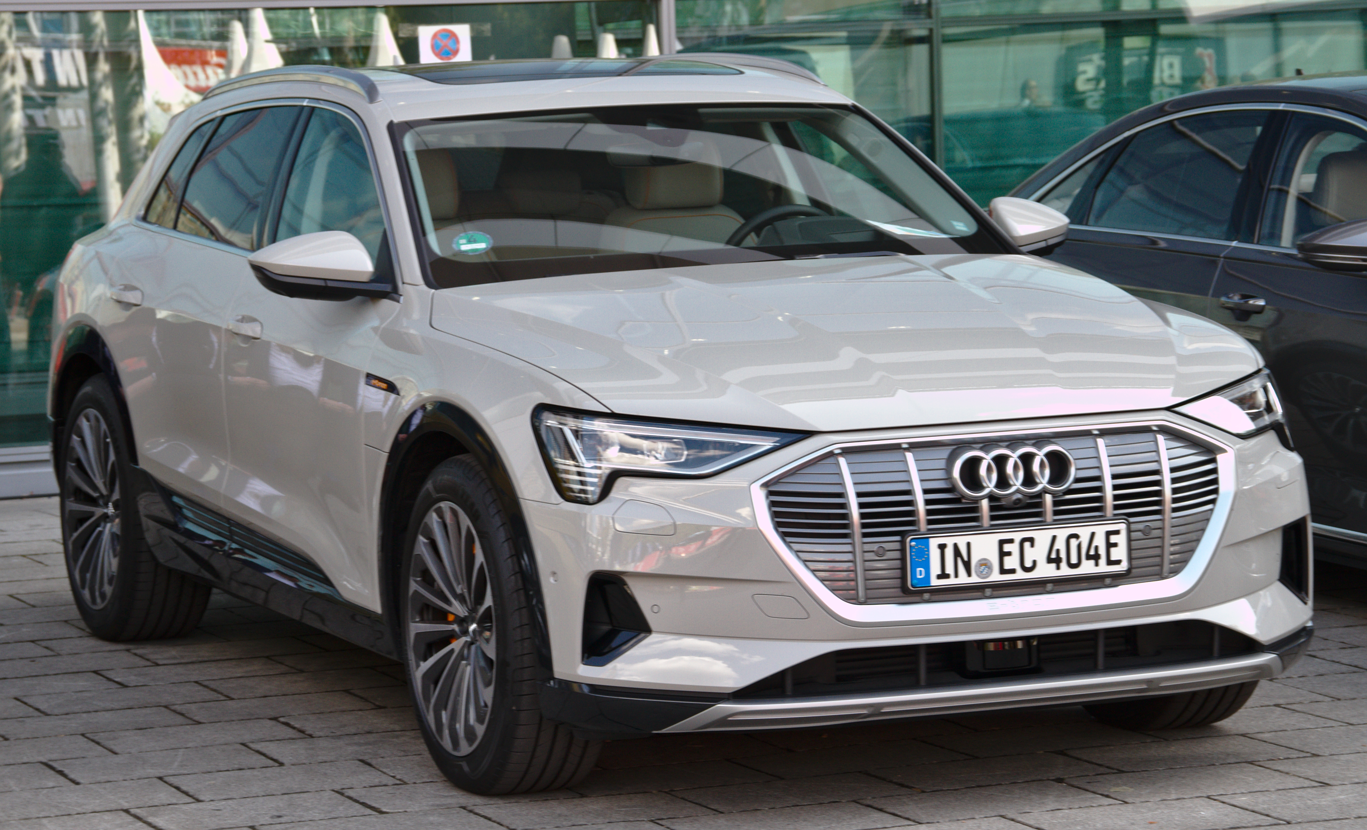 Audi_e-tron_55_quattro at IAA 2019